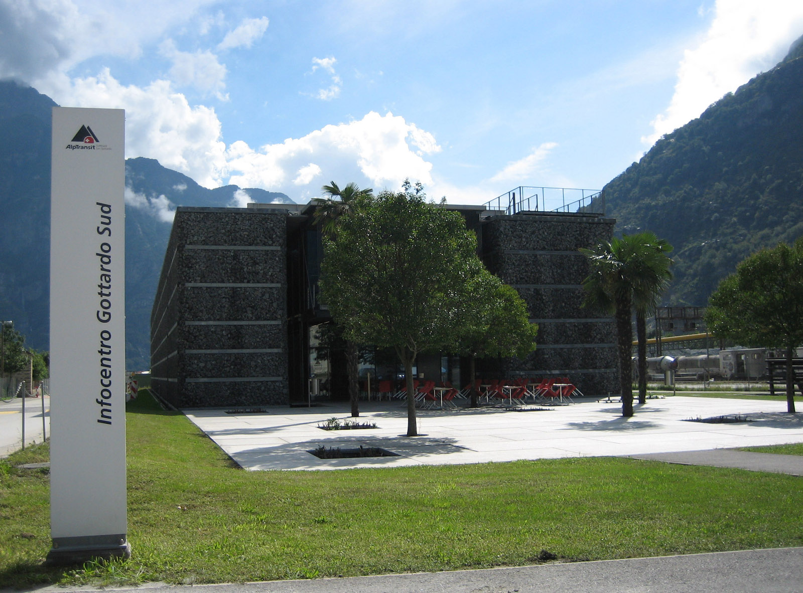 Visitors center in Bodio-Pollegio of the Gotthard Base Tunnel, Canton Ticino, Switzerland (ital.: Alptransit Infocentro Gottardo Sud). The outer structure is filled with soil excavated by the two tunnel boring machines.